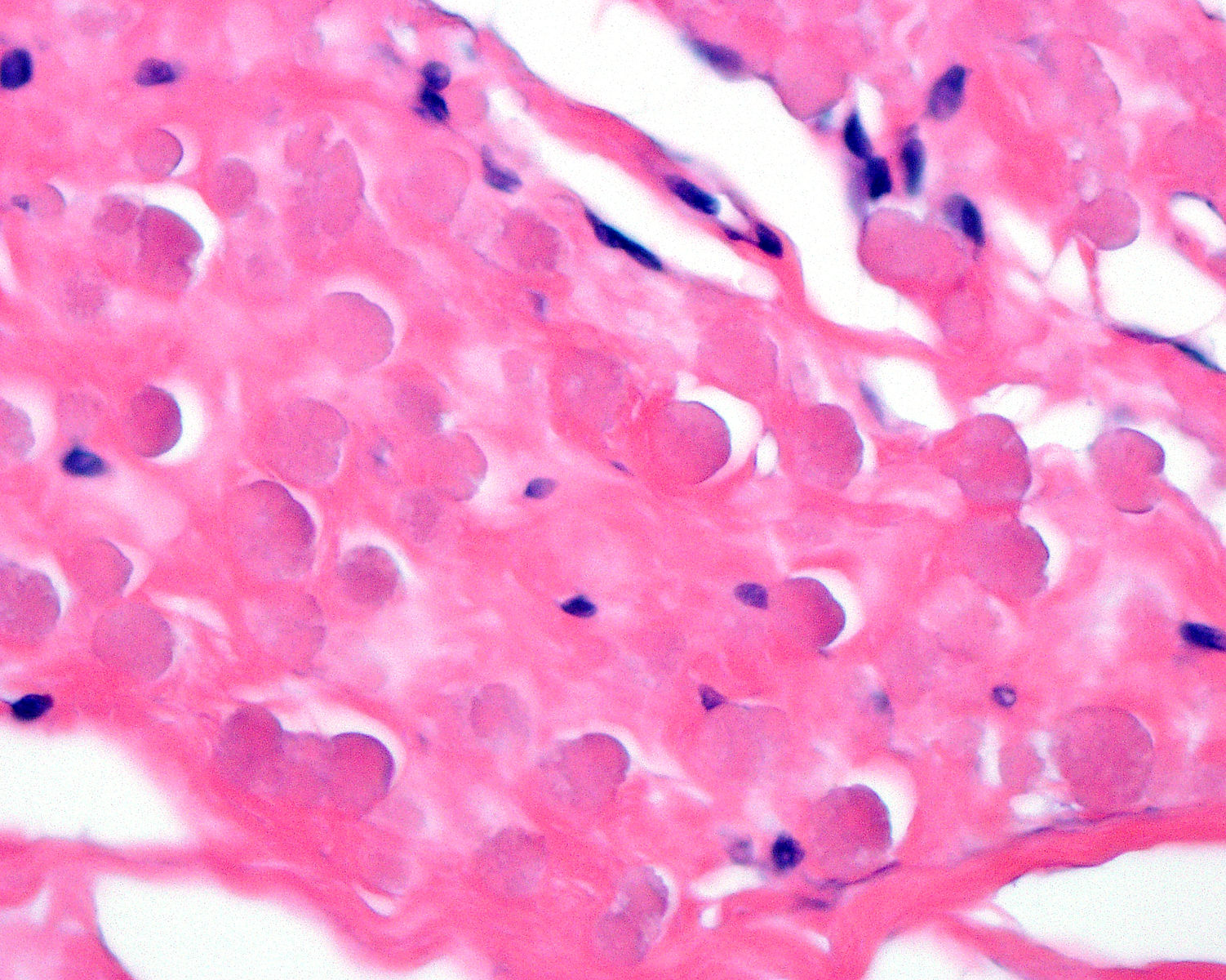 Intermediate magnification of a hematoxylin and eosin stained slide of an elastofibroma, showing the "pipe-cleaner" appearance.